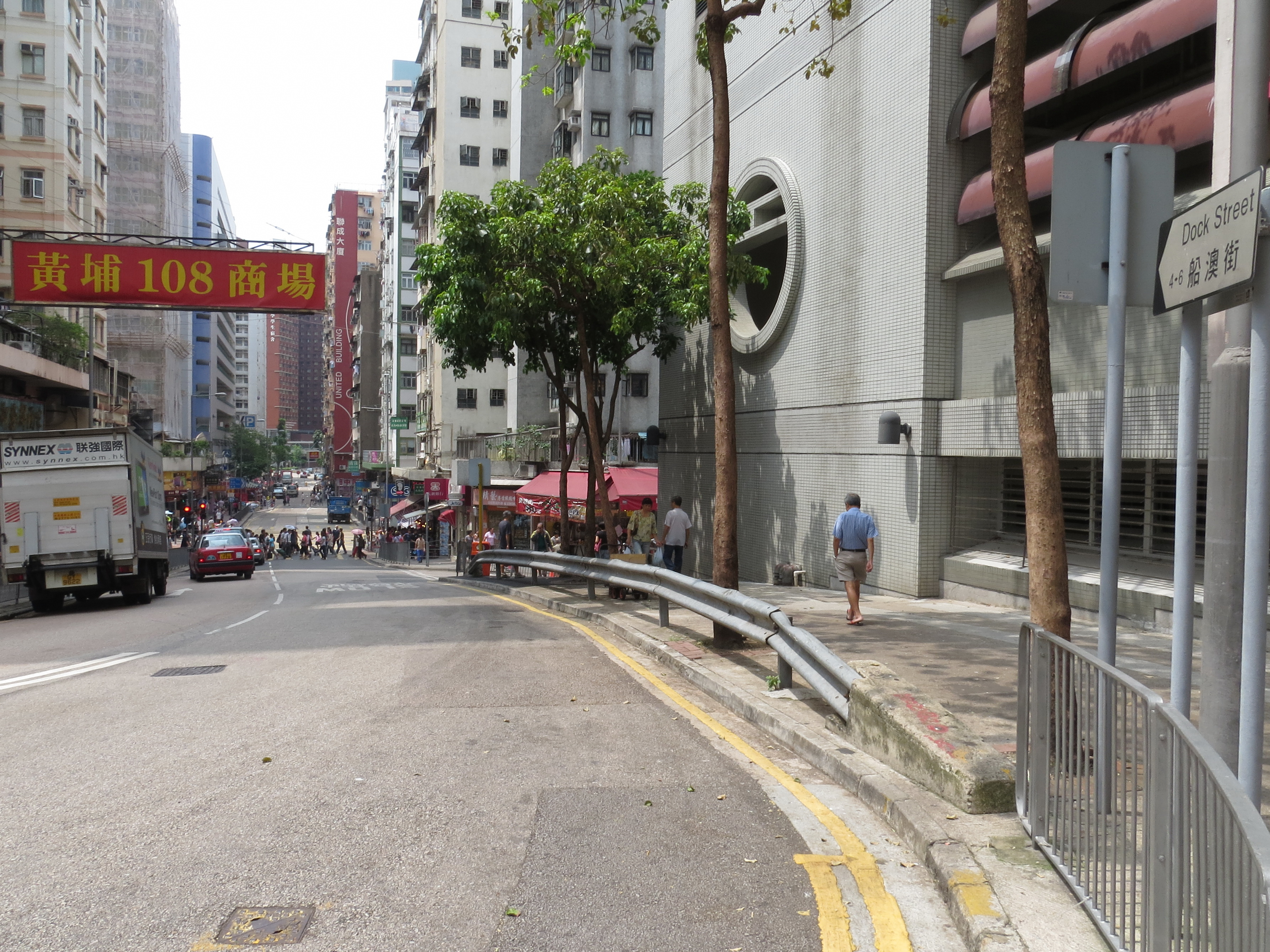 Dock Street, Hung Hom, Kowloon, Hong Kong.